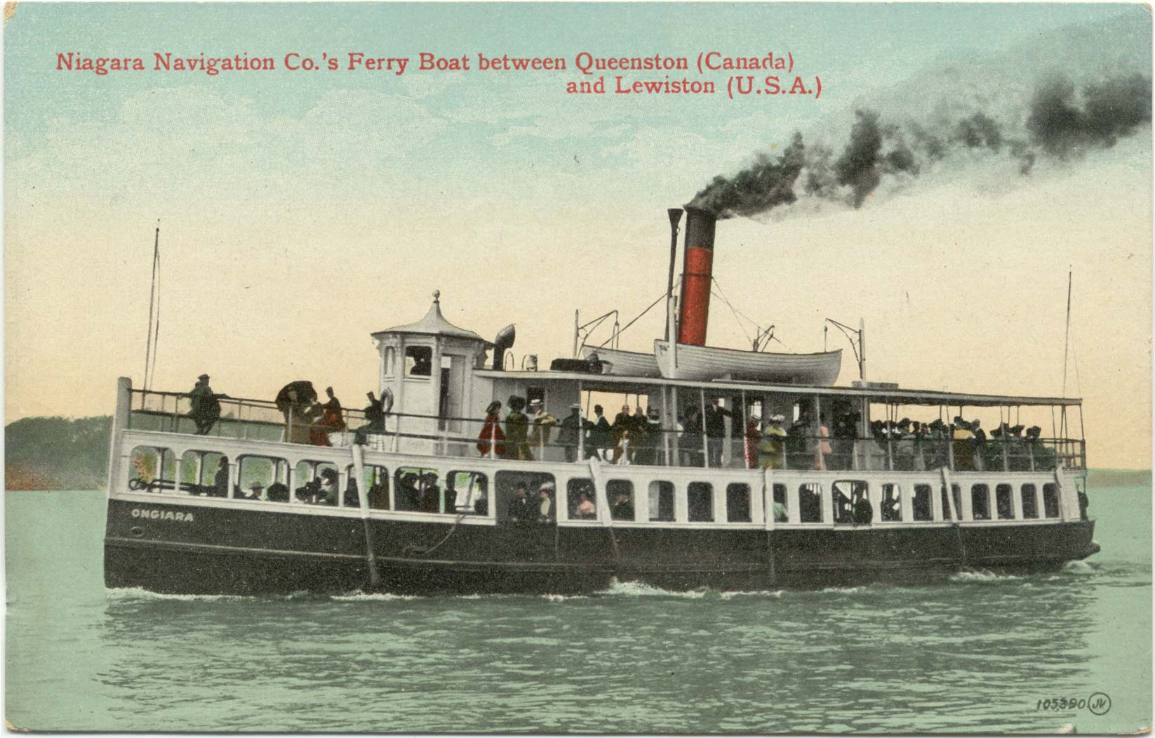 The Ongiara used to take passengers back and forth between Lewiston, New York and Queenston, Ontario.